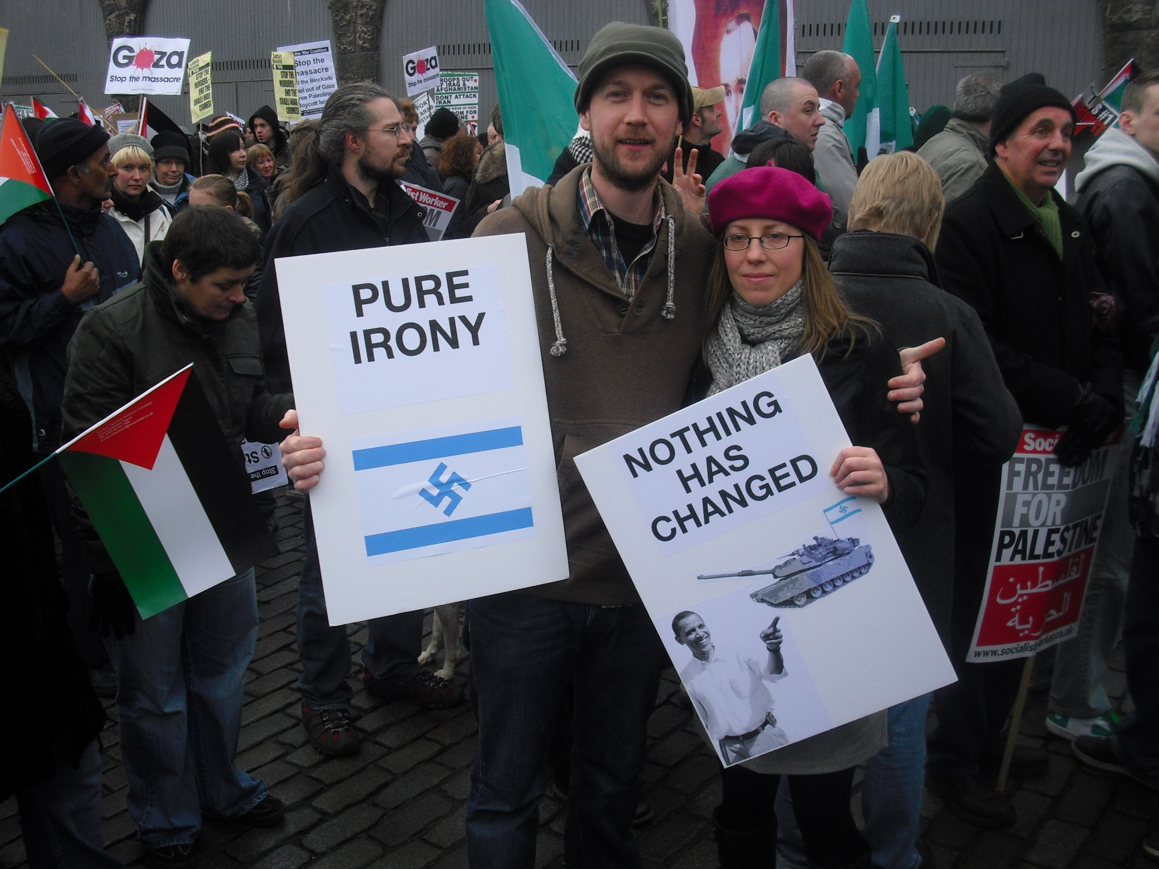 Protest in Edinburgh against Israeli war on Gaza Strip 10 1 2009